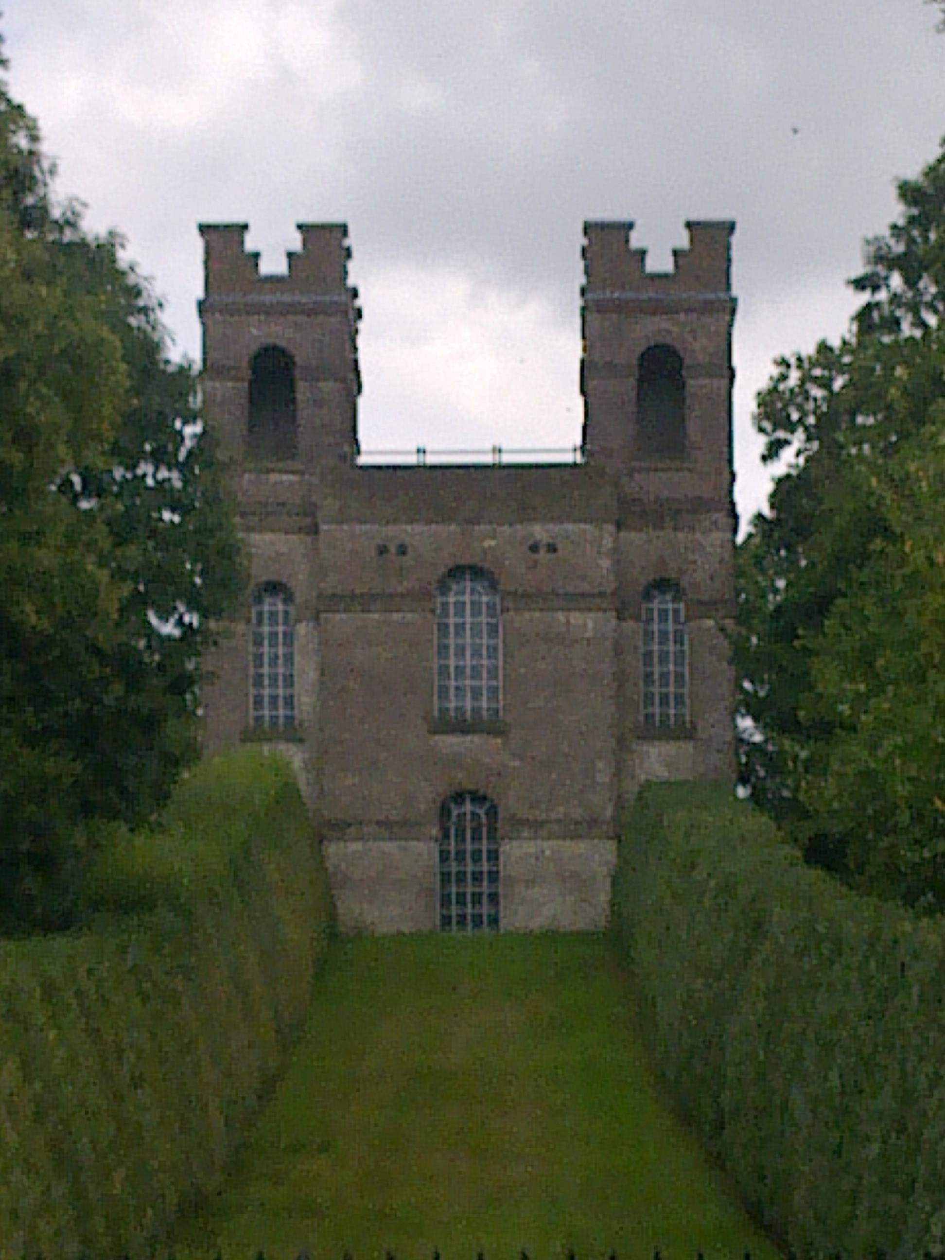 Belvedere Tower - Claremont Landscape Garden